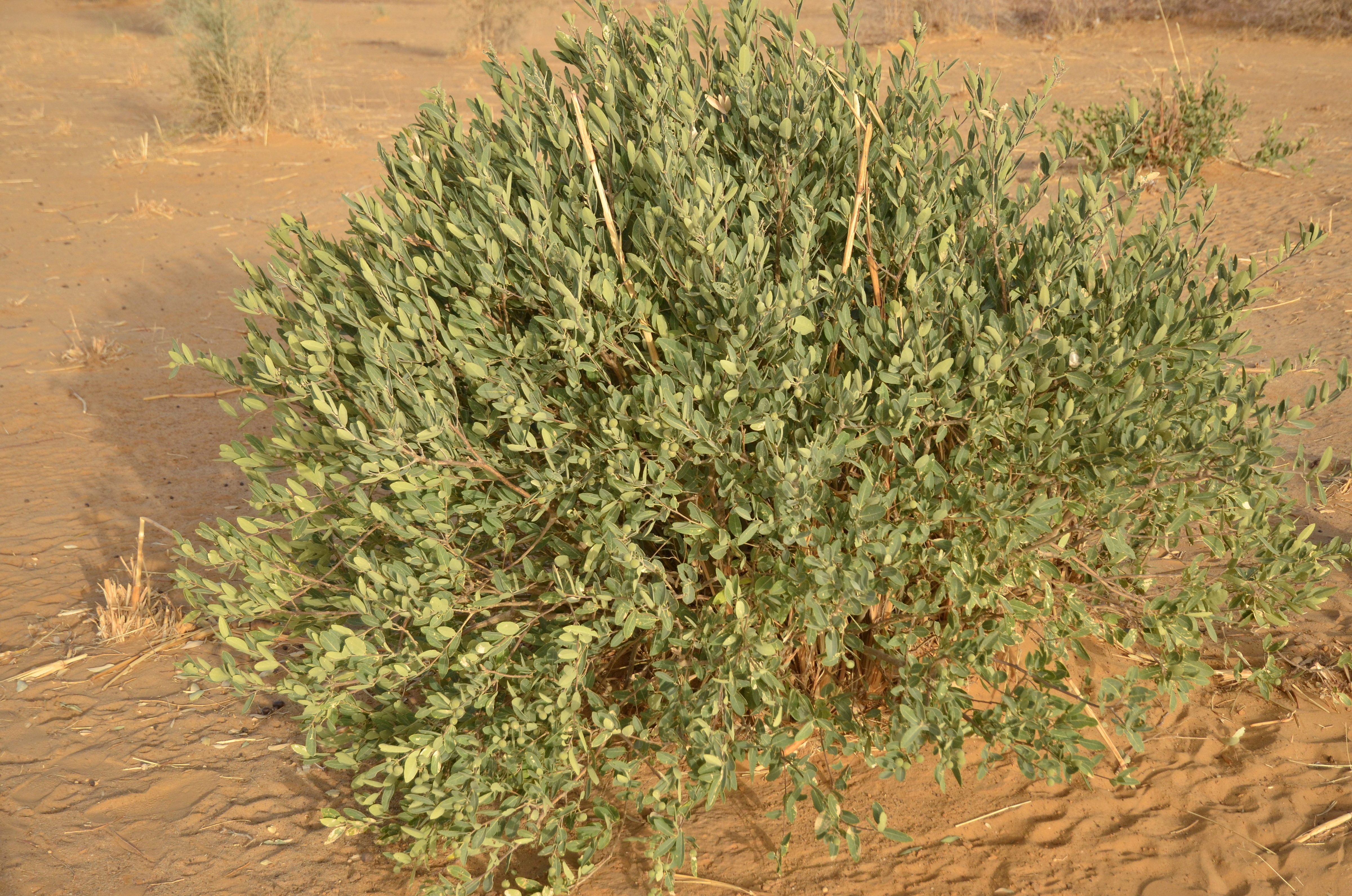 Boscia senegalensis, bush in a field with millet residues in the dry season. Photo taken in the region of Tanout, Republic of Niger, March 2013.